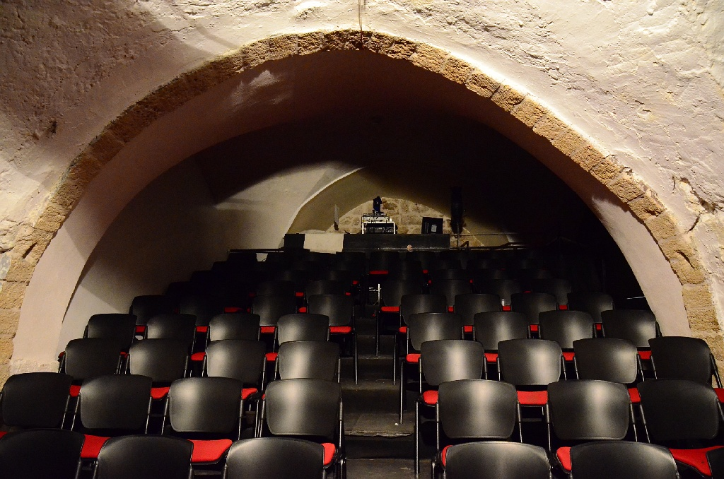 Wikipedians tour in the abandoned colony of Har-Tuv סיור ויקיפדים במושבה הנטושה הר טוב This image was taken as part of the Elef Millim project trip to Jaffa, which was held on Friday, 28th October 2011. To view all images uploaded as part of the Elef Millim Project Wikipedians visiting the Arab-Hebrew Theater at the old Saraya building in Jaffa ויקיפדים בביקור בתיאטרון הערבי-עברי בבנין הסראיה הישן ביפו